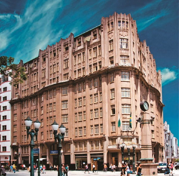 Uninter - Campus Garcez